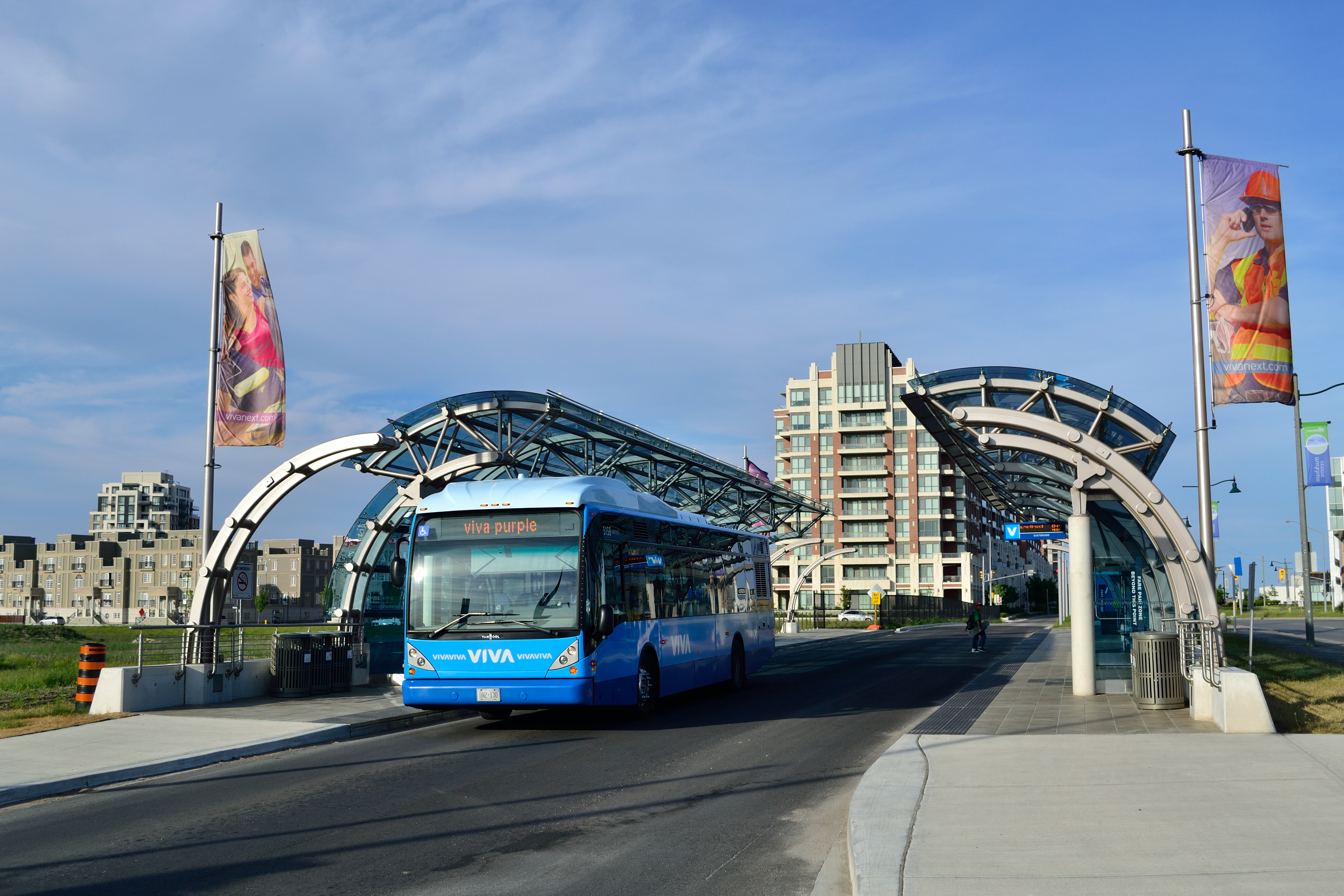 Warden VIVA Terminal. Converted from RAW file with some photo enhancements.